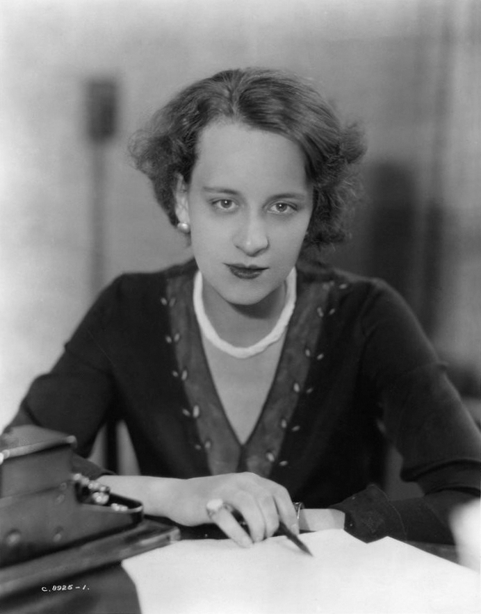 Publicity photograph of Georgia Backus, appointed dramatic director of the Columbia Broadcasting System in 1930